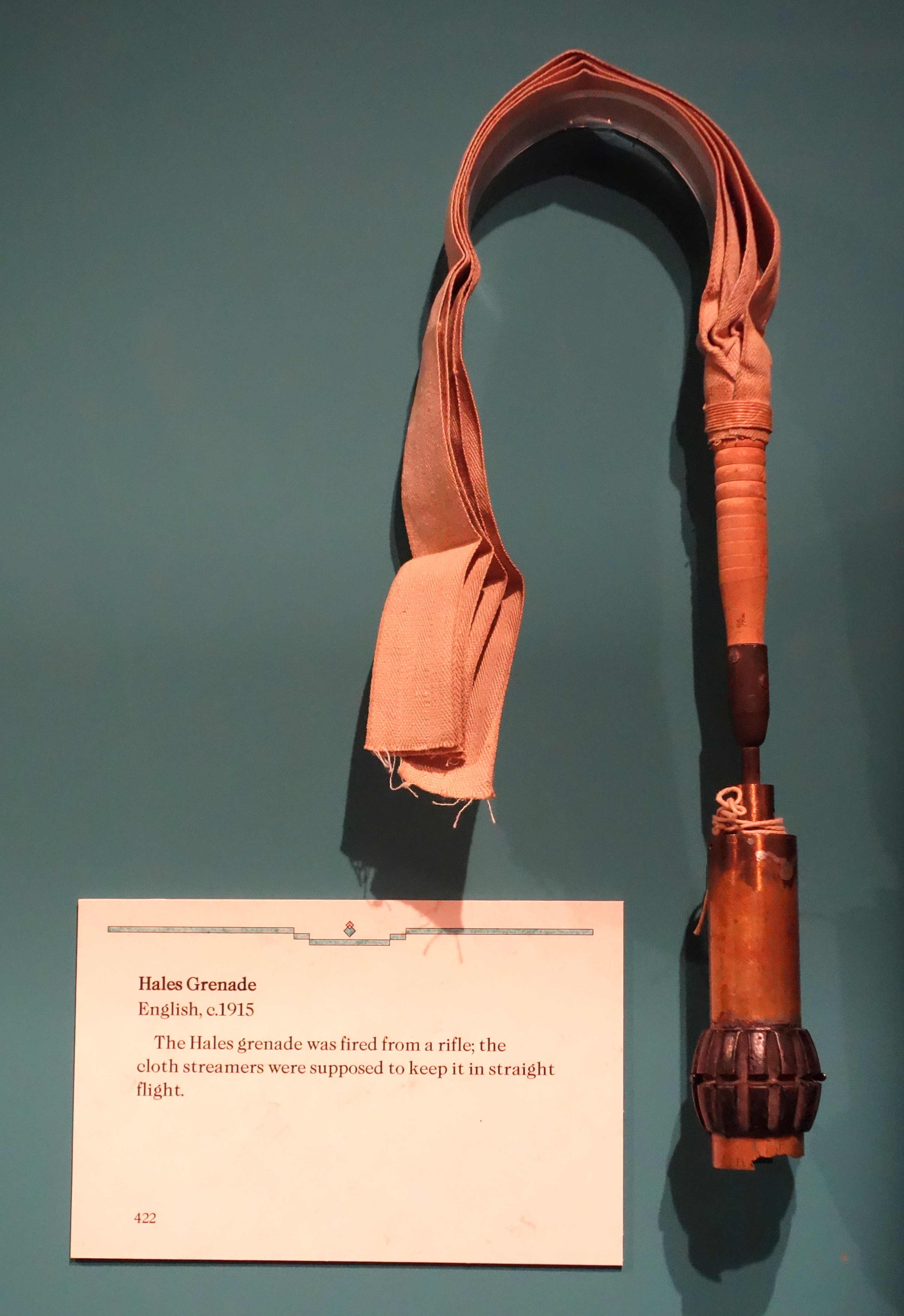 Exhibit in the Glenbow Museum, 130 9th Ave S.E., Calgary, Alberta, Canada. This work is in the public domain.